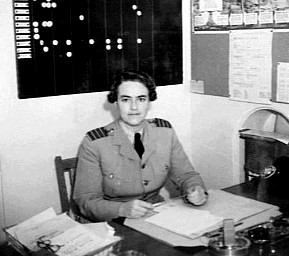 Melbourne, Vic. Informal portrait of Group Officer Clare Stevenson, Director WAAAF, in her office at RAAF Headquarters, Victoria Barracks.